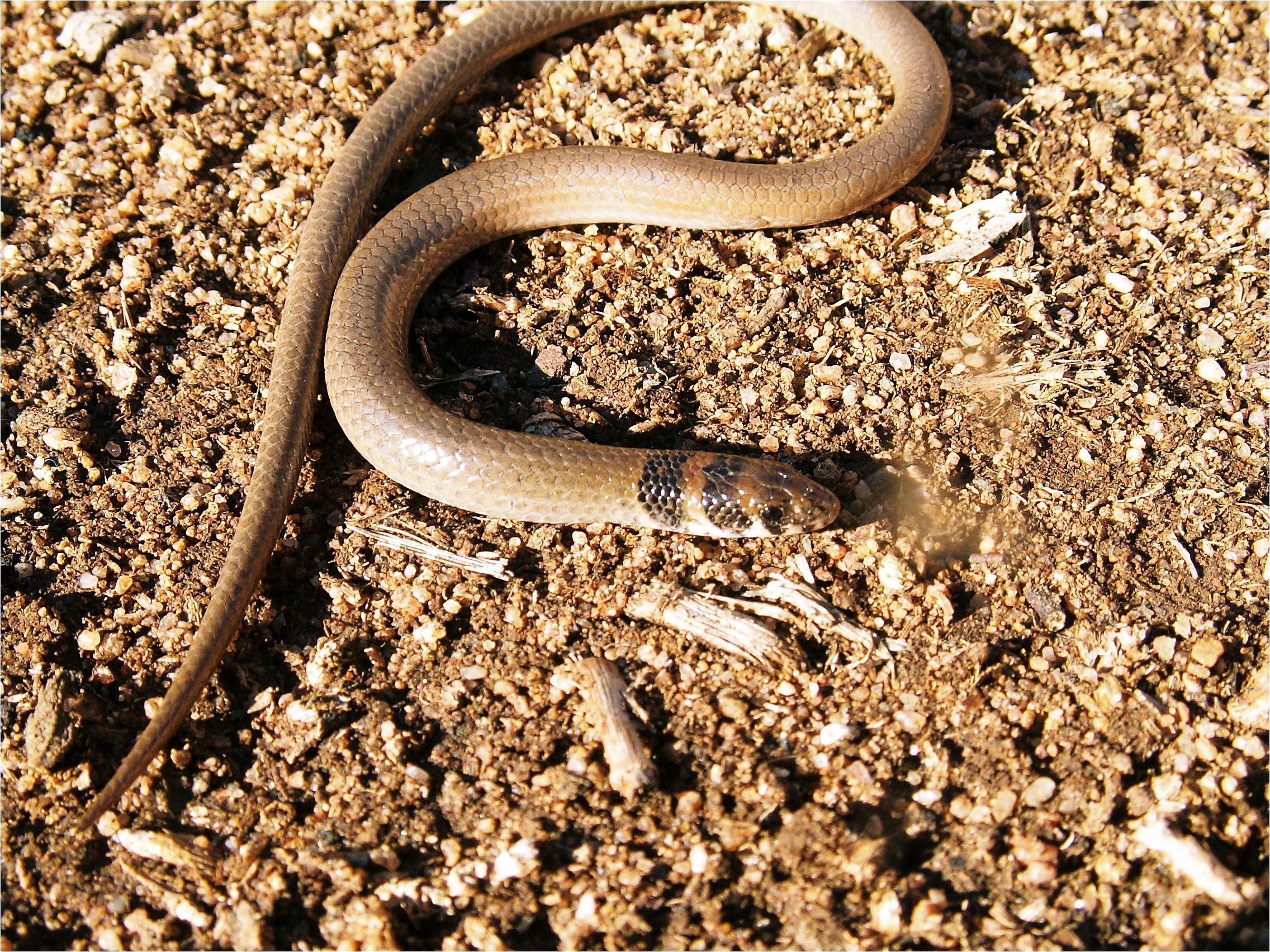 Photo by Michael Murphy.